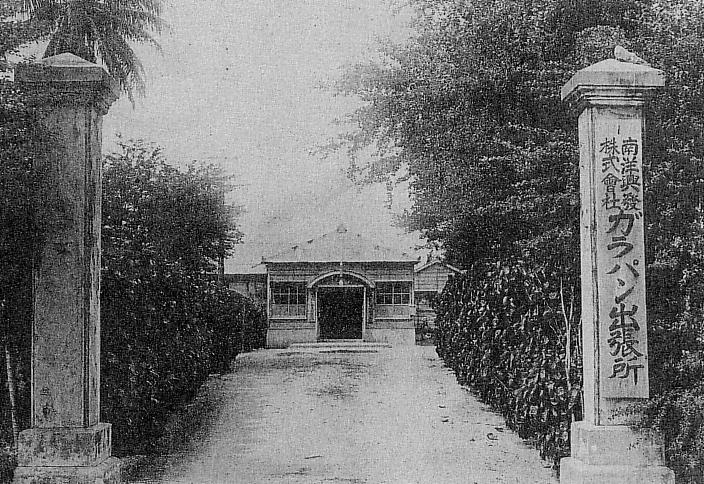 NKK("Nan'yo Kohatsu Kabushikigaisha", English name: "South Seas Development Company") Garapan Branch Office